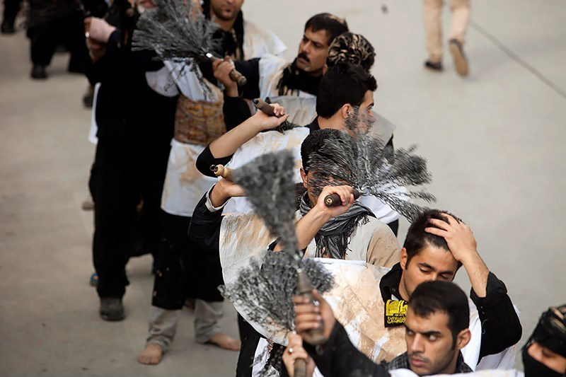 Zanjerzani in Kermanshah